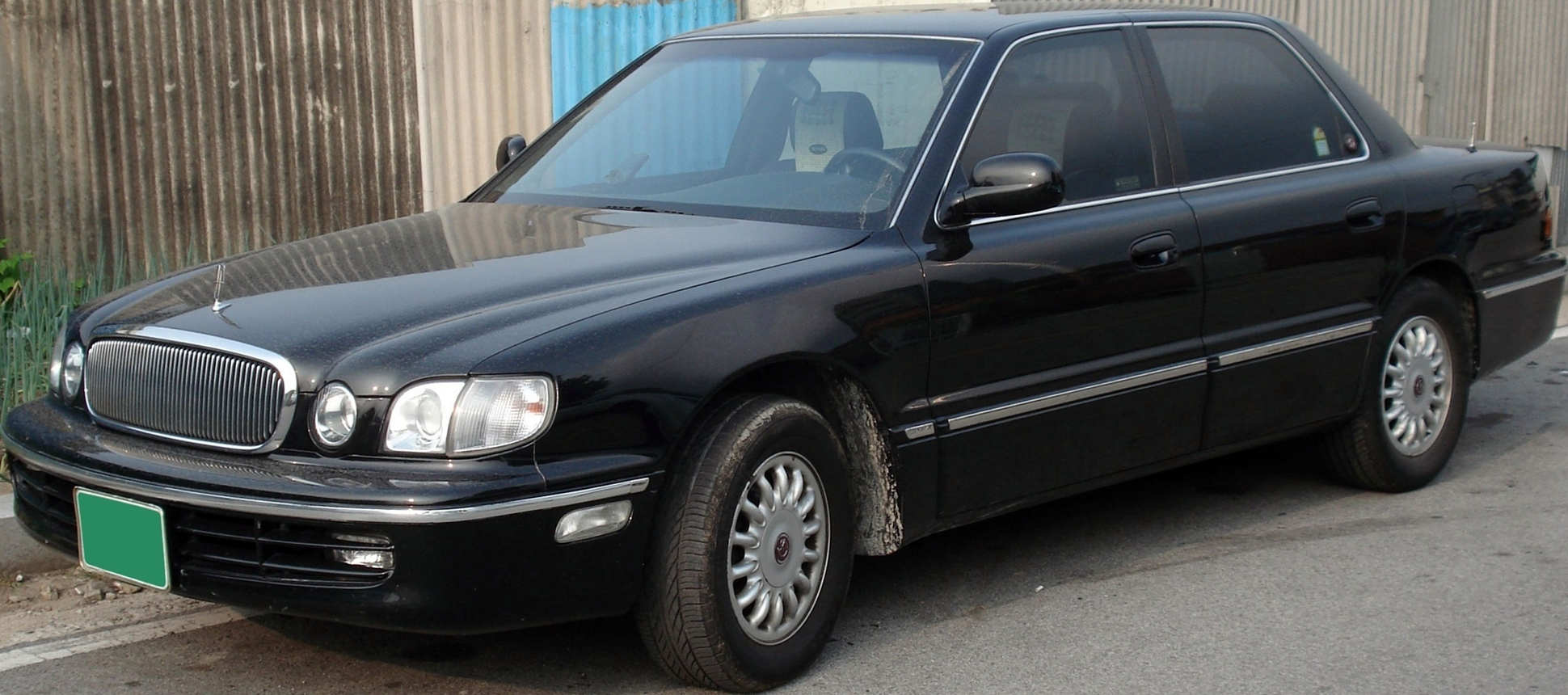 Hyundai Dynasty